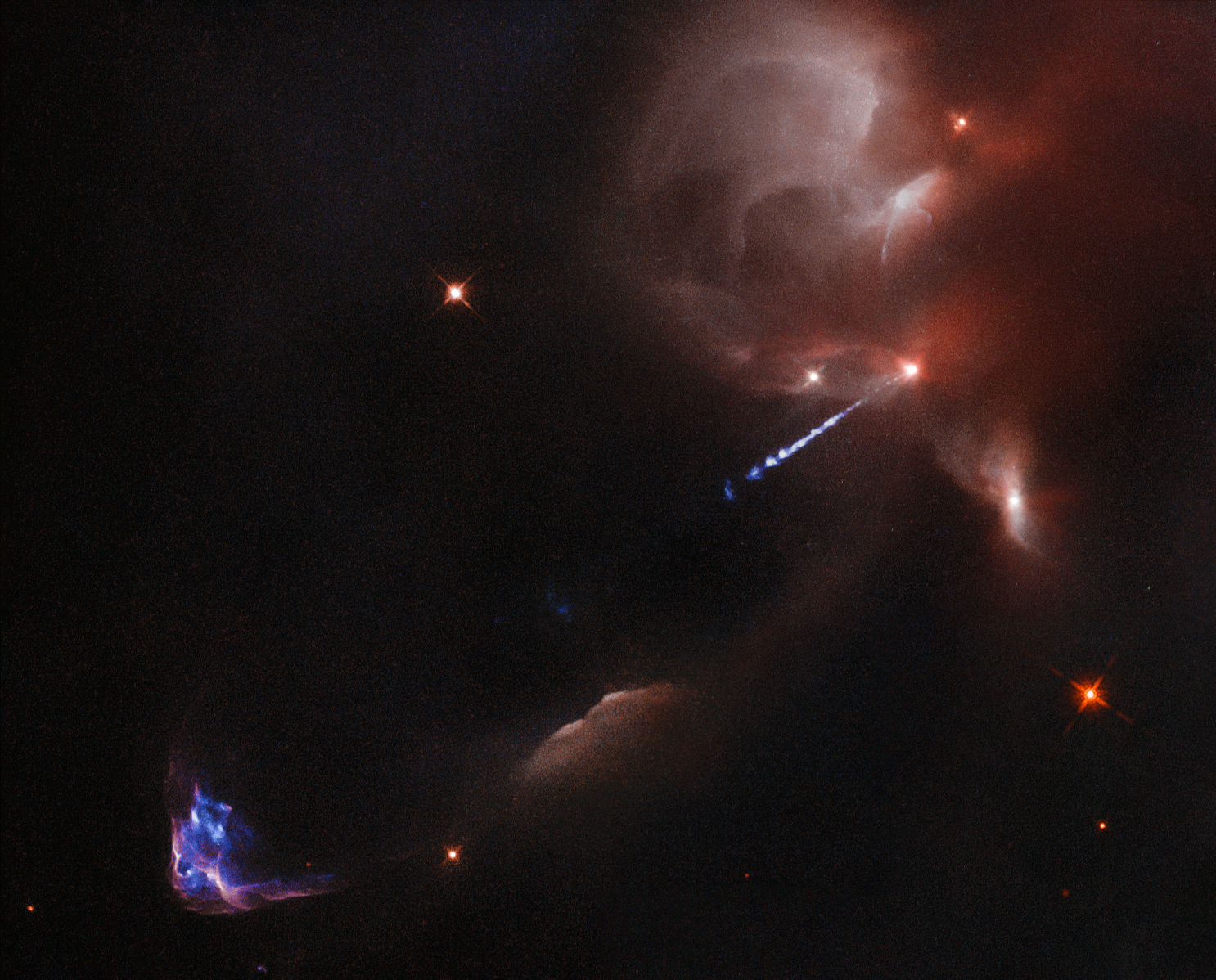 The artistic outburst of an extremely young star, in the earliest phase of formation, is captured in this spectacular image from the NASA/ESA Hubble Space Telescope. The colourful wisps, found in the lower left of the image, are painted onto the sky by a young star cocooned in the partially illuminated cloud of obscuring dust seen to the upper right. Pictured punching through the enshrouding dust is an extremely hot, blue jet of gas released by the young star. As this jet speeds through space, it collides with cooler surrounding material. The result is the colourful object to the lower left, produced as the cooler material is heated by the jet (opo9524a, potw1307a). This wispy object is known as HH34 and it is an example of a Herbig–Haro (HH) object. It resides approximately 1400 light-years away near the Orion Nebula, a large star formation region within the Milky Way. HH objects exist for a cosmically brief time — typically thousands of years — with changes seen in observations taken only a few years apart (heic1113). Although the jet extends the entire length between the infant star and HH34, only a fraction of it appears visible. This part of the jet possesses an intricate structure of knots and ripples, thought to be caused by the different outbursts catching up and ramming into each other over time.